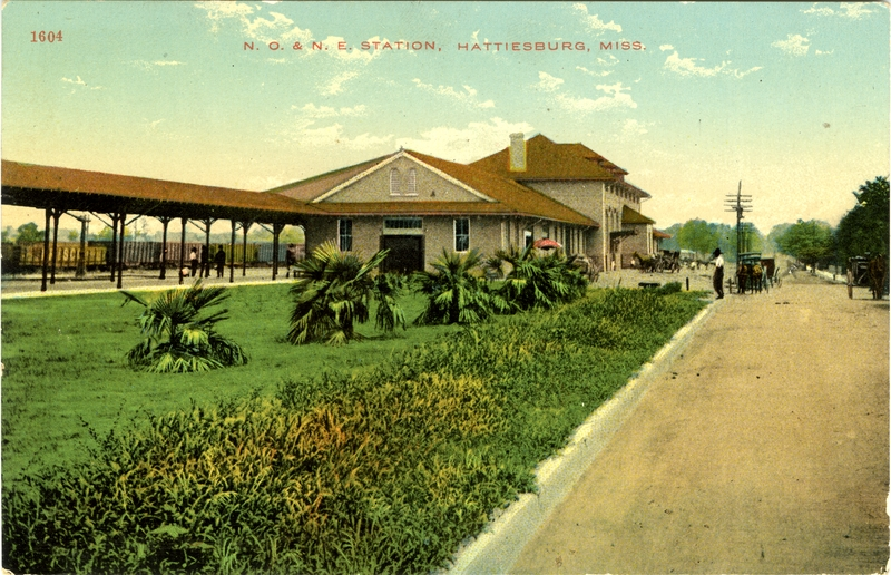 Hattiesburg Union Station in the early 1900s